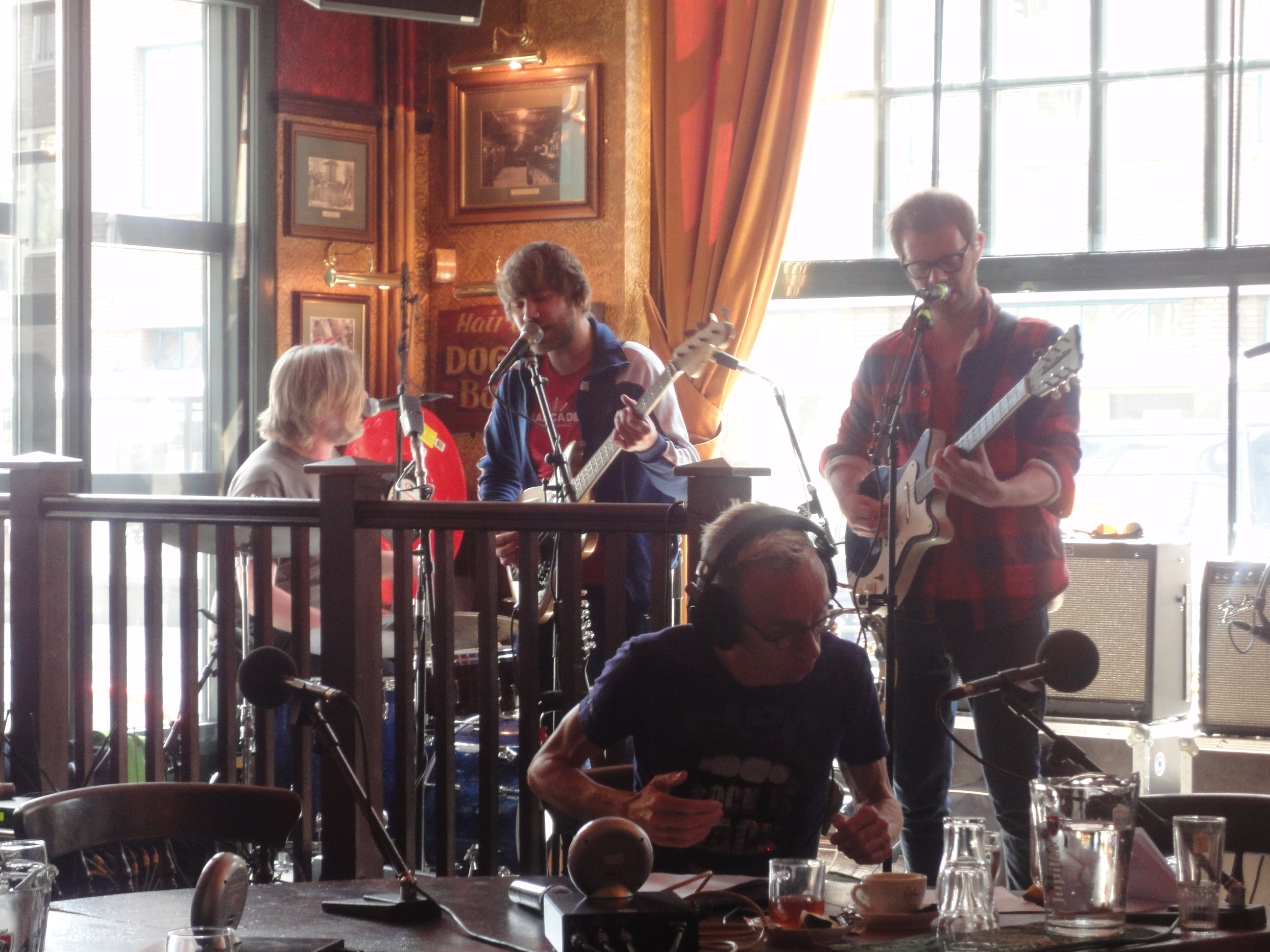 Moss doing a live recording on the Spijkers met Koppen radio show.